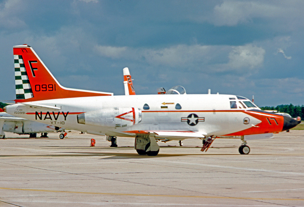 North American T-39D Sabreliner 150991 of VT-10 Squadron US Navy at NAS Pensacola in 1975